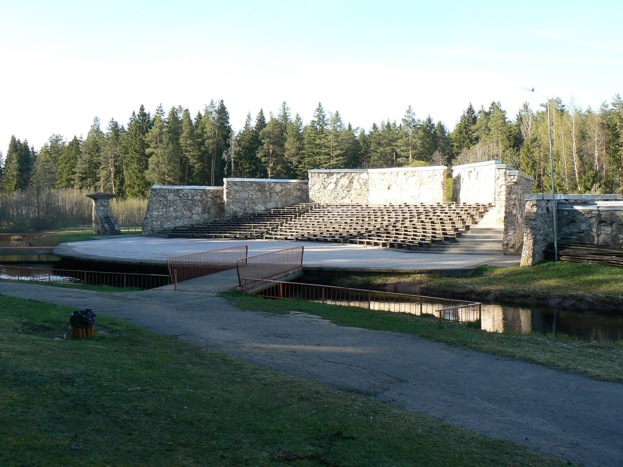 Valka singing square